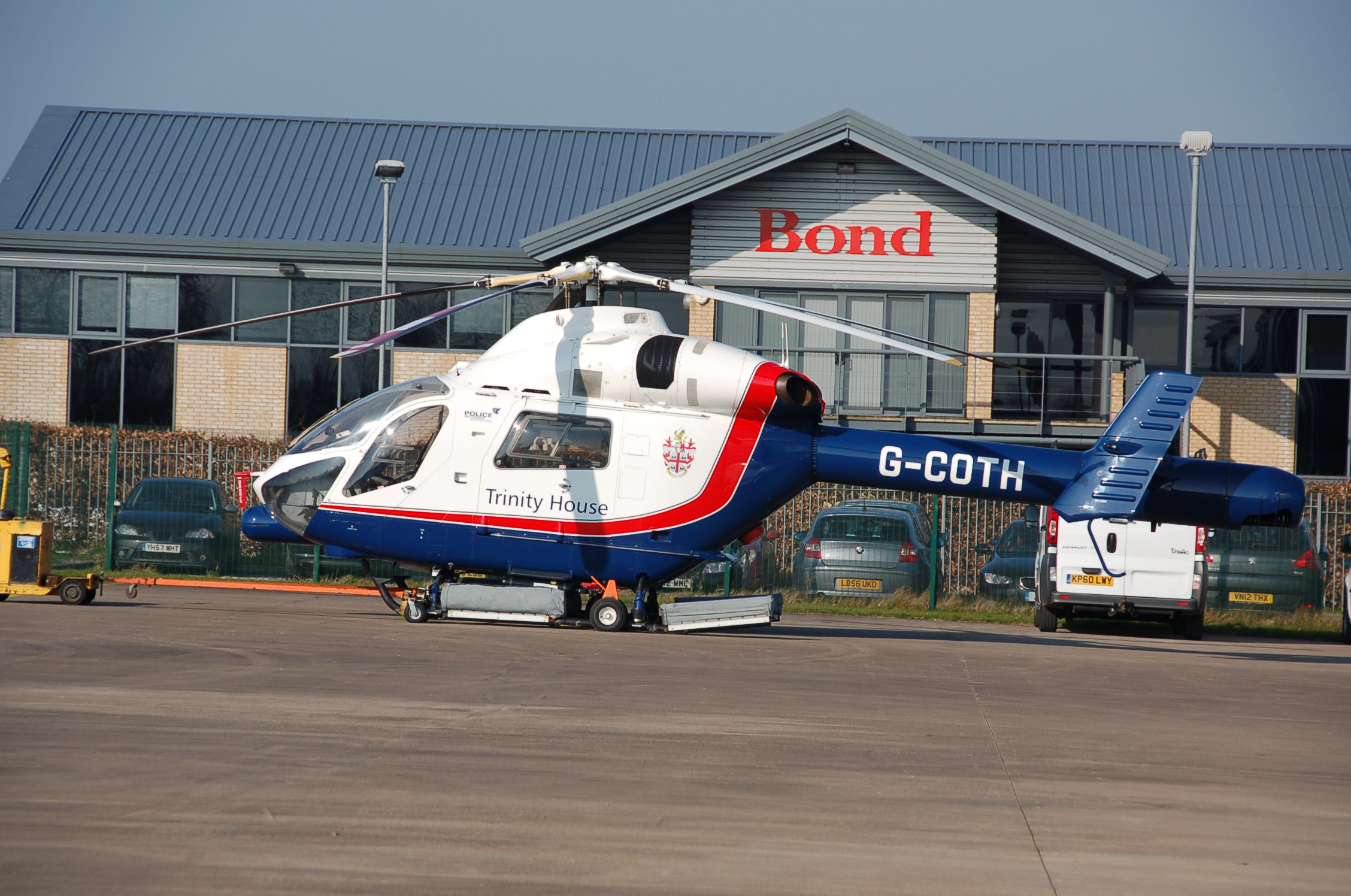 McD-D Helicopters MD-902 of Police Aviation Services wearing the titles of Trinity House at Gloucester-Staverton,19/02/13.